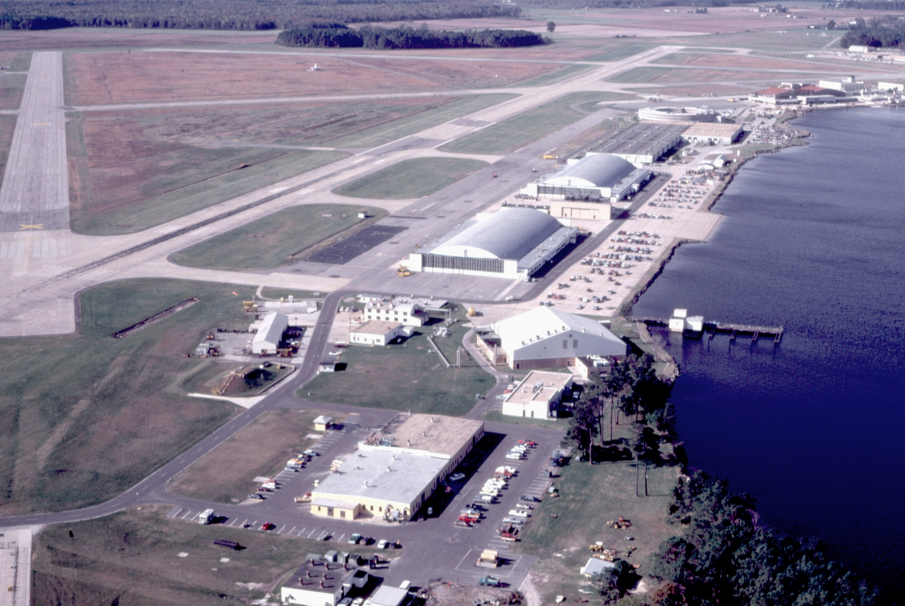 Aerial view of the U.S. Coast Guard Air Station Elizabeth City, North Carolina (USA), in 1999.